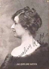 Signed portrait of the French opera singer Jacqueline Royer (1884-19??), published as postcard in Buenos Aires, Argentina